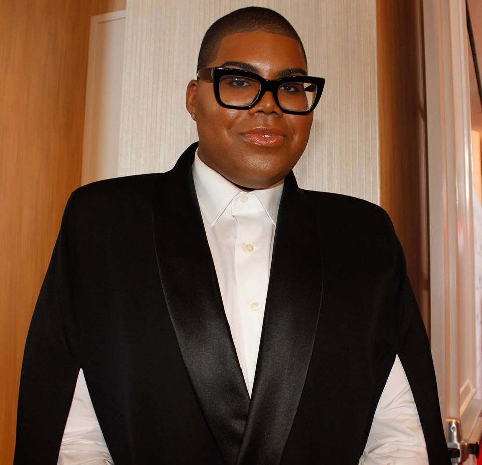 Neon Tommy | Ashley Velez